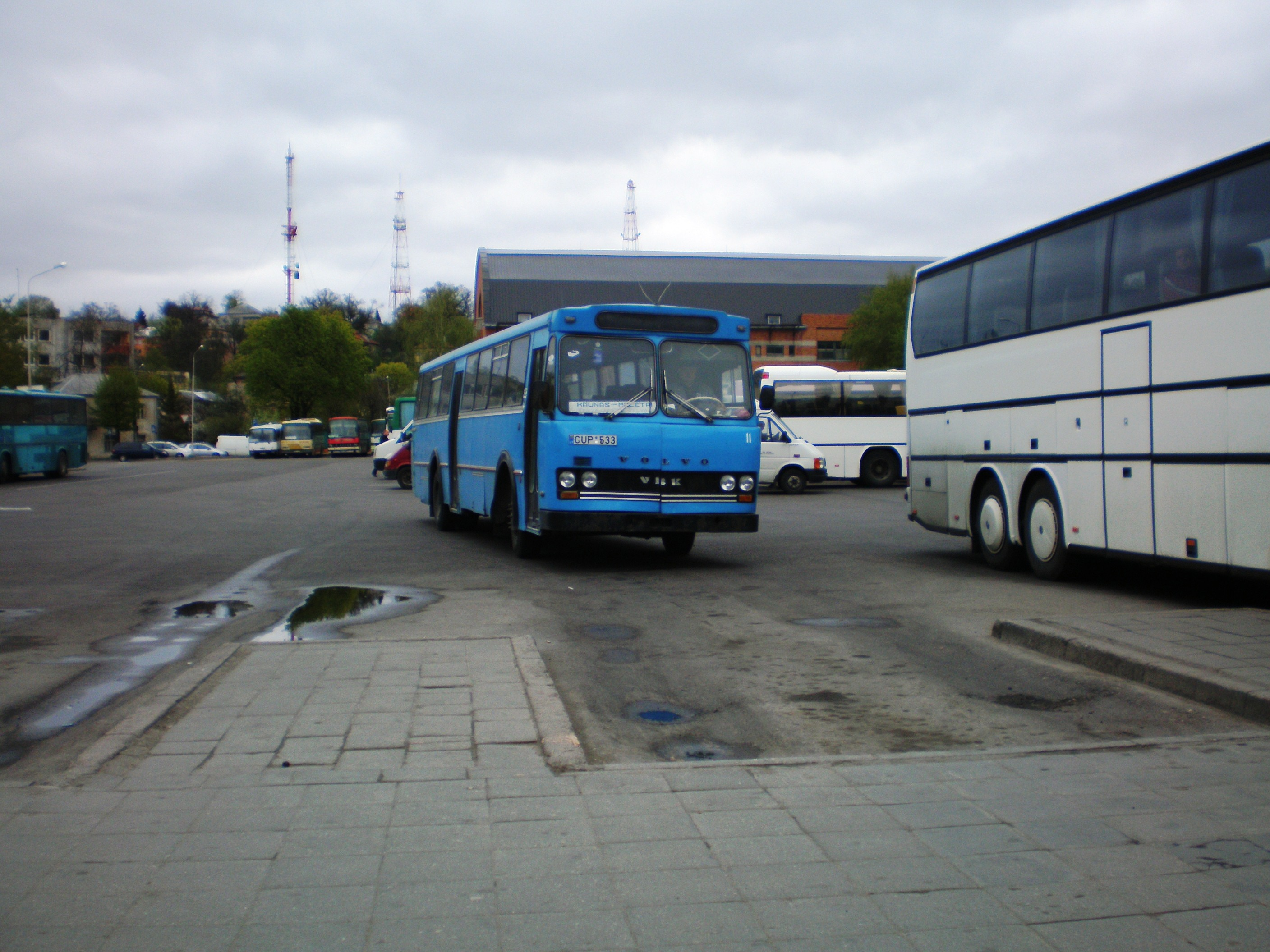 unknown old Volvo VBK bus (route Kaunas-Jonava-Ukmergė-Molėtai) in Lithuania, Kaunas Bus station.